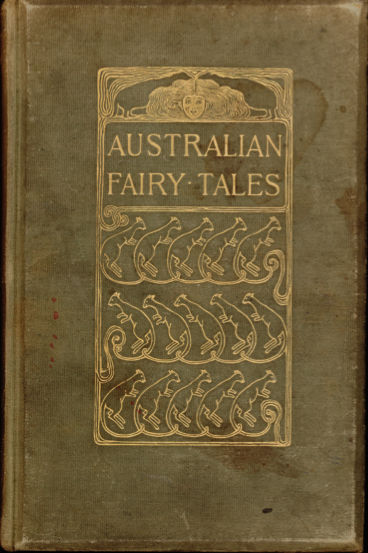 Cover of First Edition of "Australian Fairy Tales" by Atha Westbury, Ward Locke & Co. London 1897.